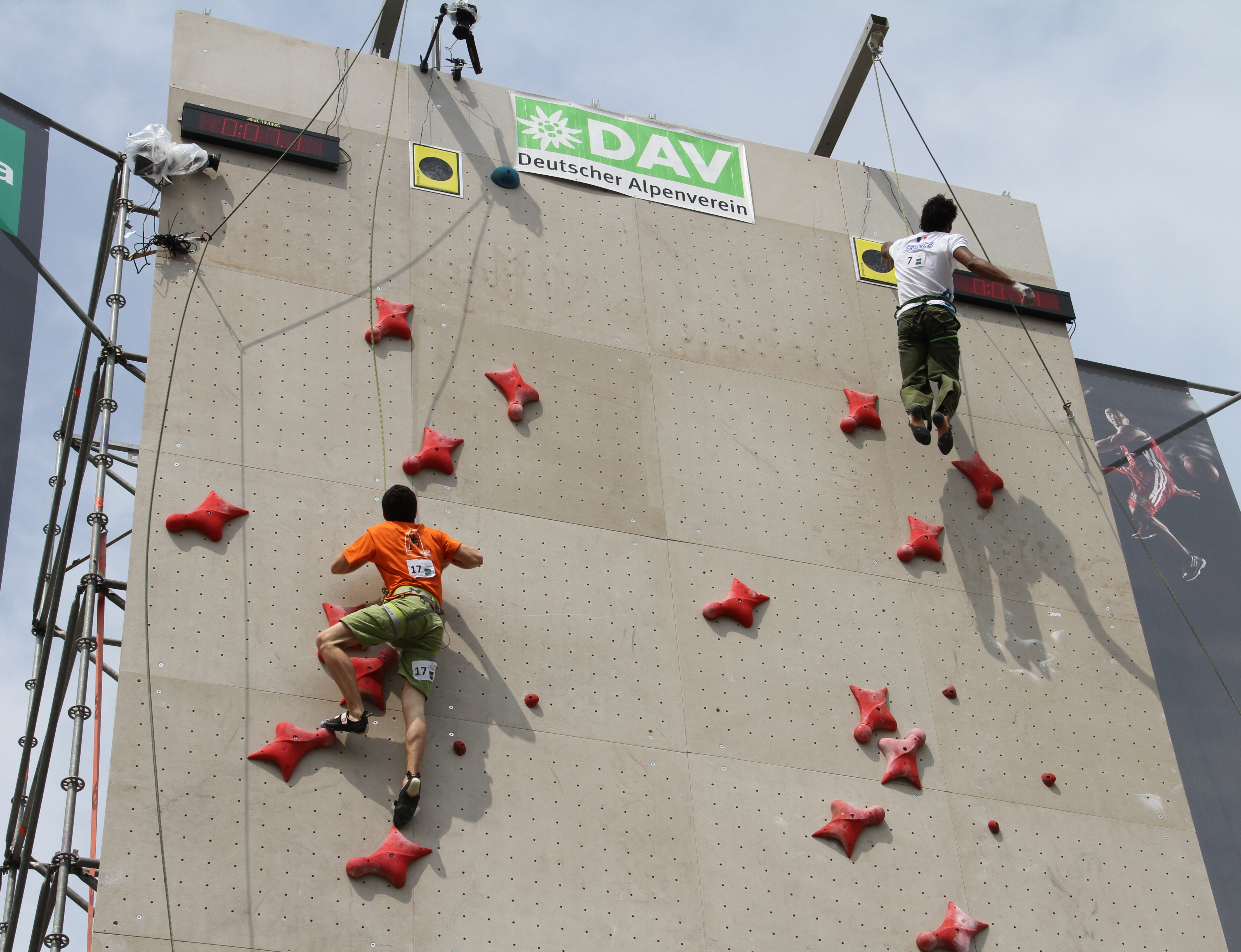 Speed climbing, at a promo event in Munich, Germany. Bassa Mawem (FRA) wins against Simon Bosler (GER)